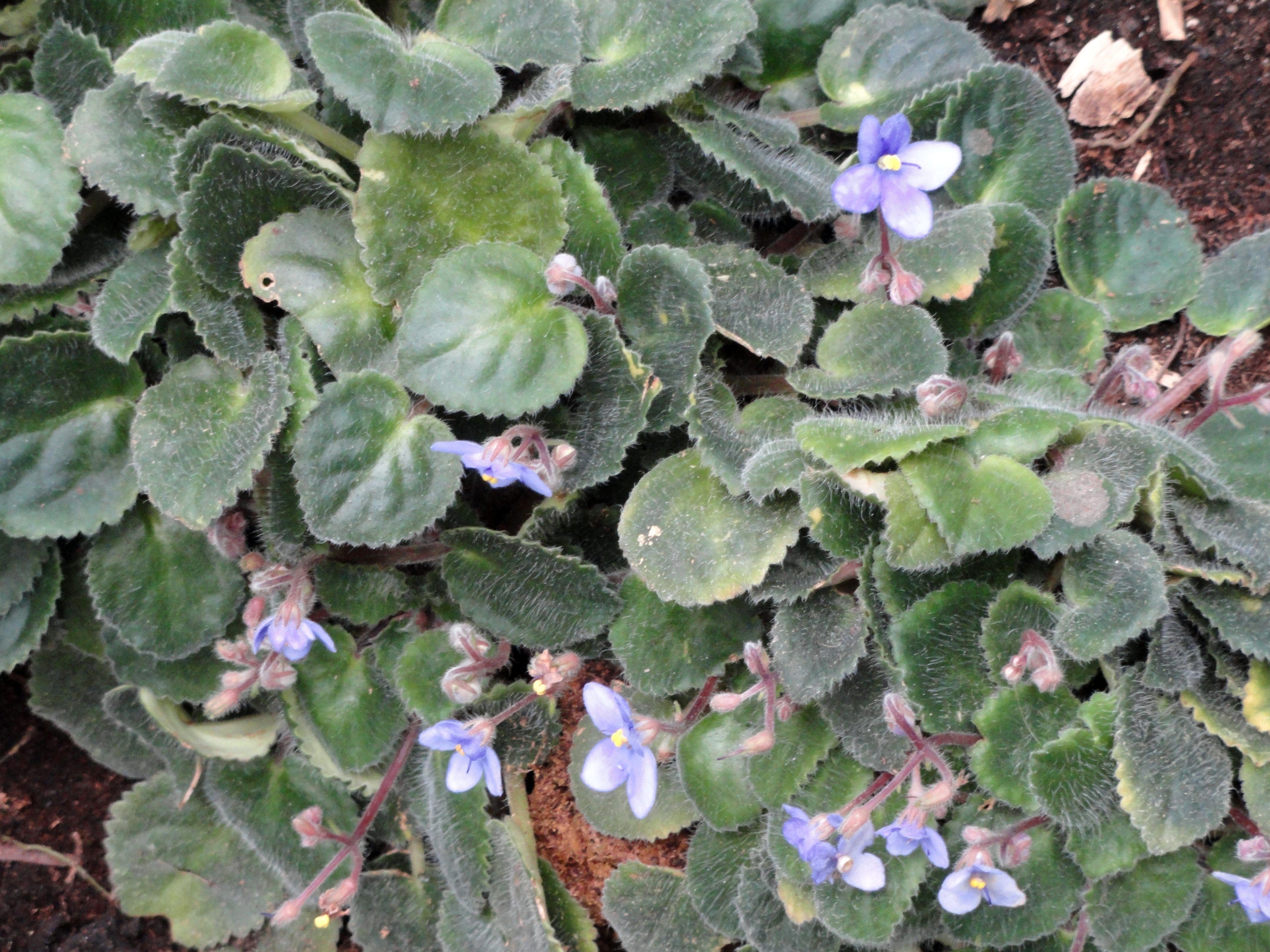 Botanical specimen in the University of Copenhagen Botanical Garden, Copenhagen, Denmark.